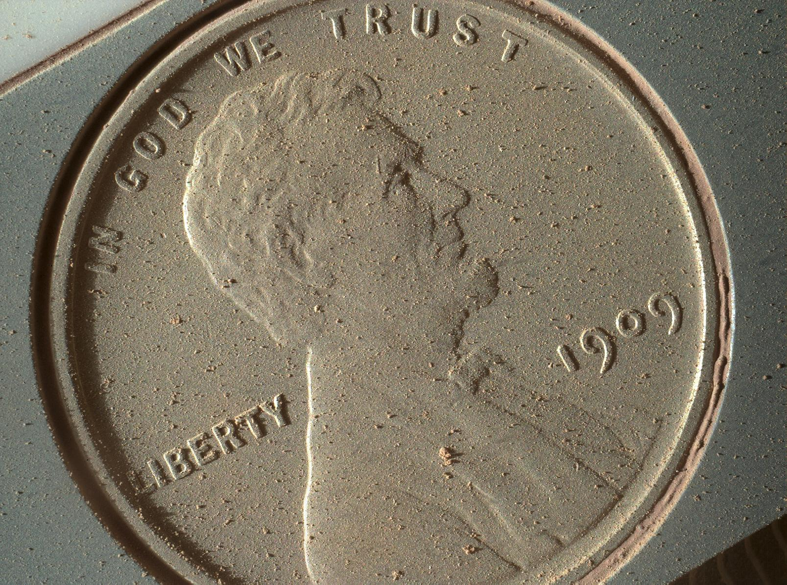 Mars Hand Lens Imager Sends Ultra High-Res Photo from Mars - This image of a U.S. penny on a calibration target was taken by the Mars Hand Lens Imager (MAHLI) aboard NASA's Curiosity rover in Gale Crater on Mars. At 14 micrometers per pixel, this is the highest-resolution image that MAHLI can acquire. This image was obtained as part of a test on the 411th Martian day, or sol, of the mission (Oct. 2, 2013), the first time the rover's robotic arm placed MAHLI close enough to a target to obtain the camera's highest-possible resolution. It shows that, during the penny's 14 months (so far) on Mars, it has accumulated Martian dust and clumps of dust, despite its vertical mounting position on the calibration target for MAHLI. The previous highest-resolution MAHLI images, which were pictures of Martian rocks, were at 16 to 17 micrometers per pixel. A micrometer, also known as a micron, is about 0.000039 inch. The penny is a 1909 VDB penny minted in Philadelphia during the first year that Lincoln cents became available. More information about its inclusion on the MAHLI calibration target is available at . The gold medal for highest resolution photographs on Mars goes to NASA's Phoenix Mars Lander's optical microscope. As a microscope, though, fine-grained samples had to be delivered to it, whereas MAHLI can be deployed to look at geologic materials in their natural setting.